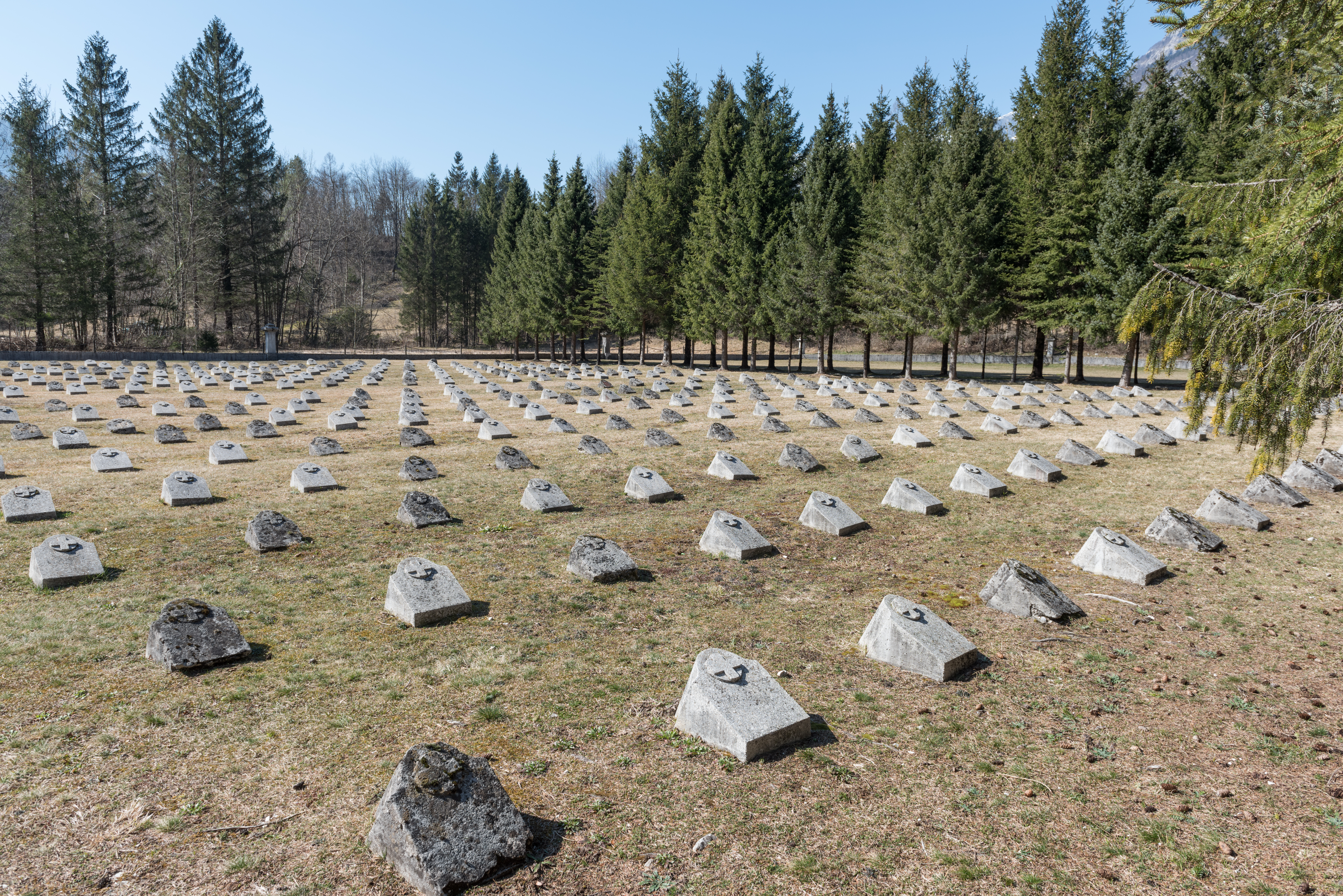 War cemetery at the former Austro-Hungarian Isonzo front of the First Worldwar in Kal-Koritnica, Bovec, Primorska, Slovenia, EU